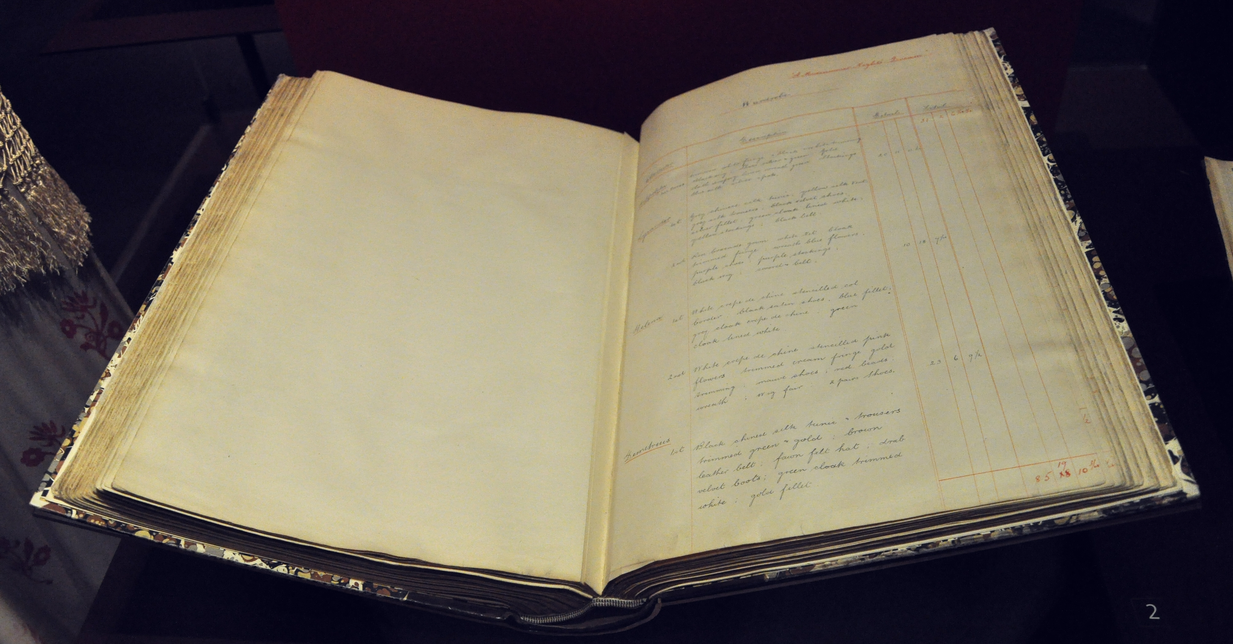 Savoy Theatre account book, pages showing costs of the 1914 A Midsummer Night's Dream production Victoria and Albert Museum, London